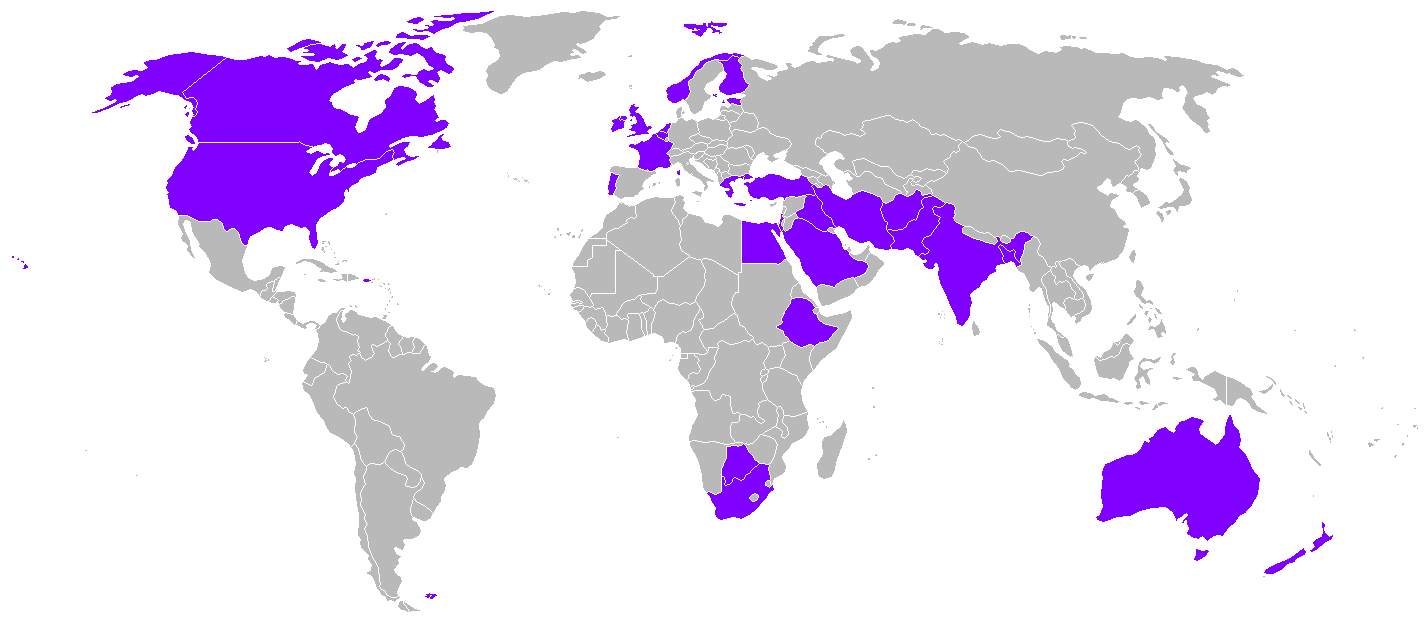 World map of Avro Anson operators